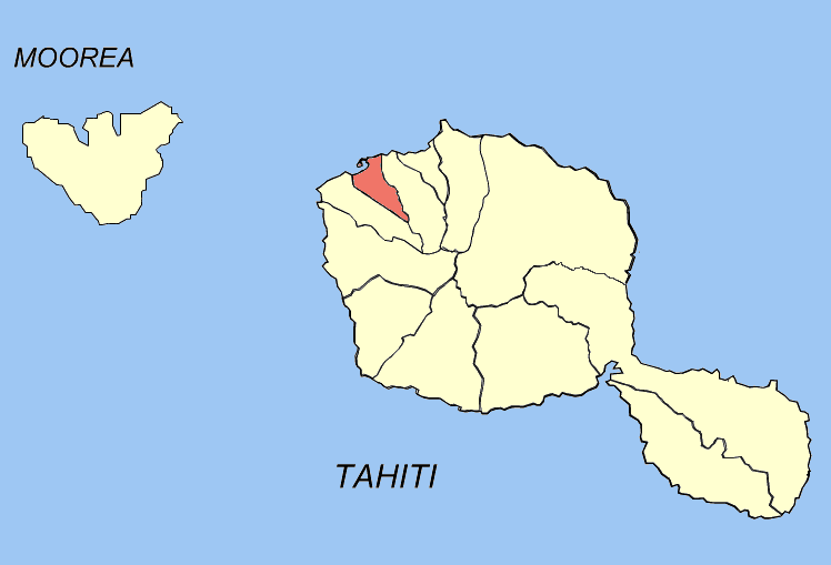 Map of Tahitian communes — Pape’ete